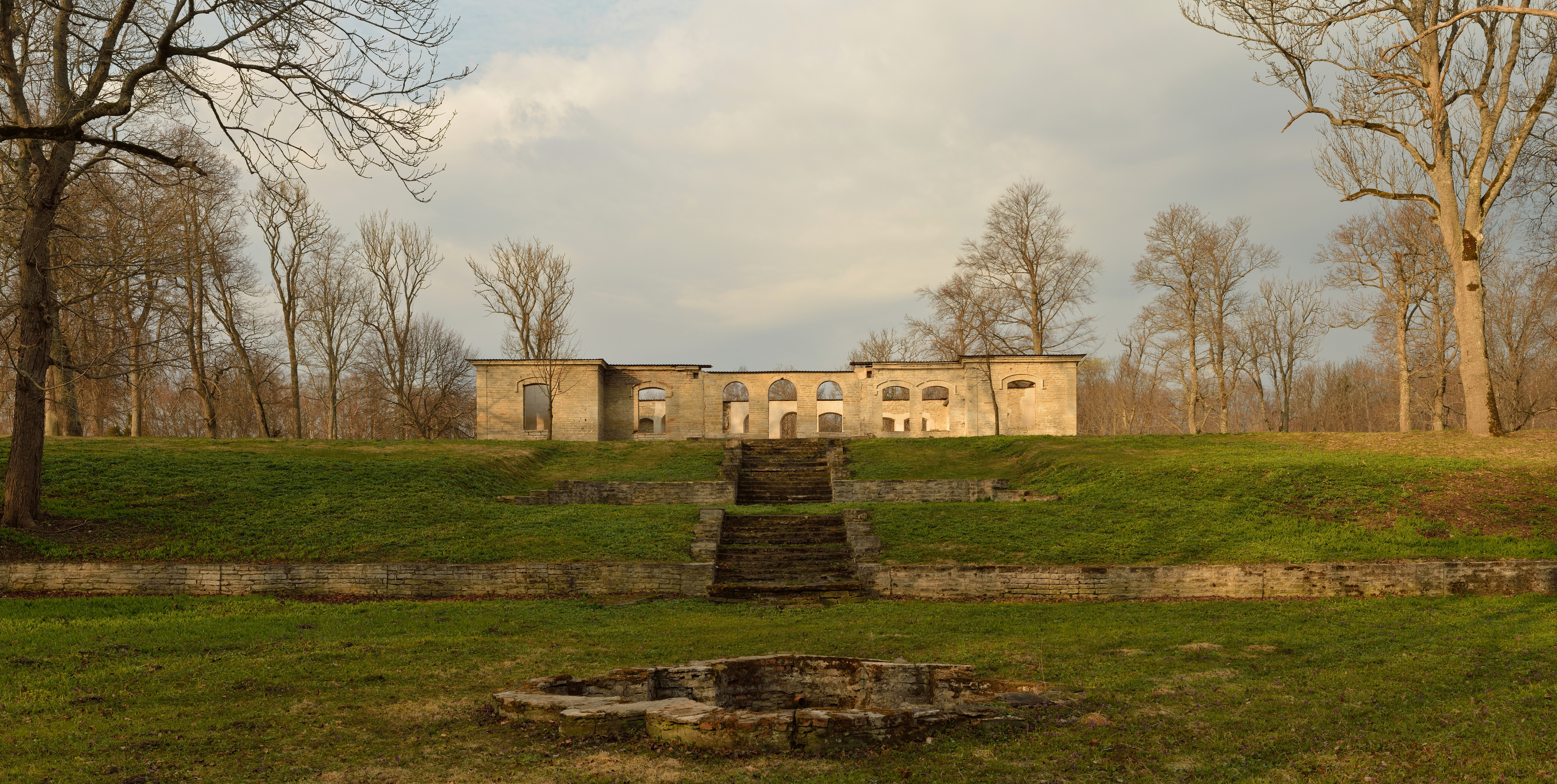 Ruins of Leetse manor main building with stairway